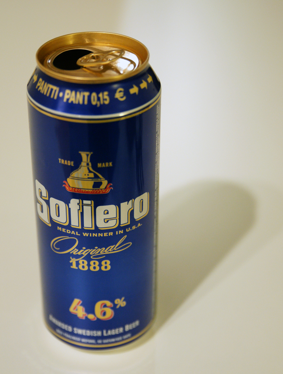 A tin of Sofiero beer.